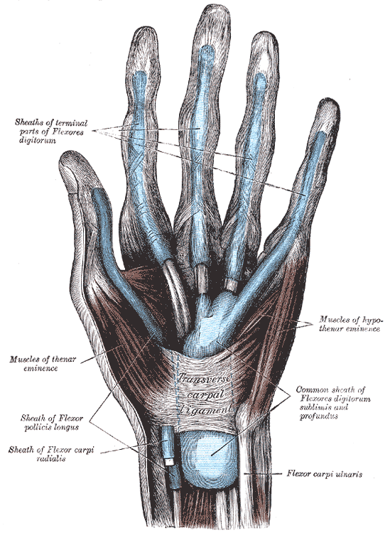 The mucous sheaths of the tendons on the front of the wrist and digits.